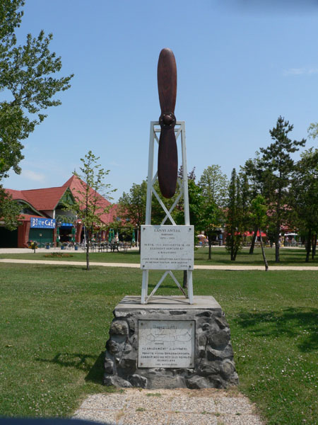 Antal Lányi